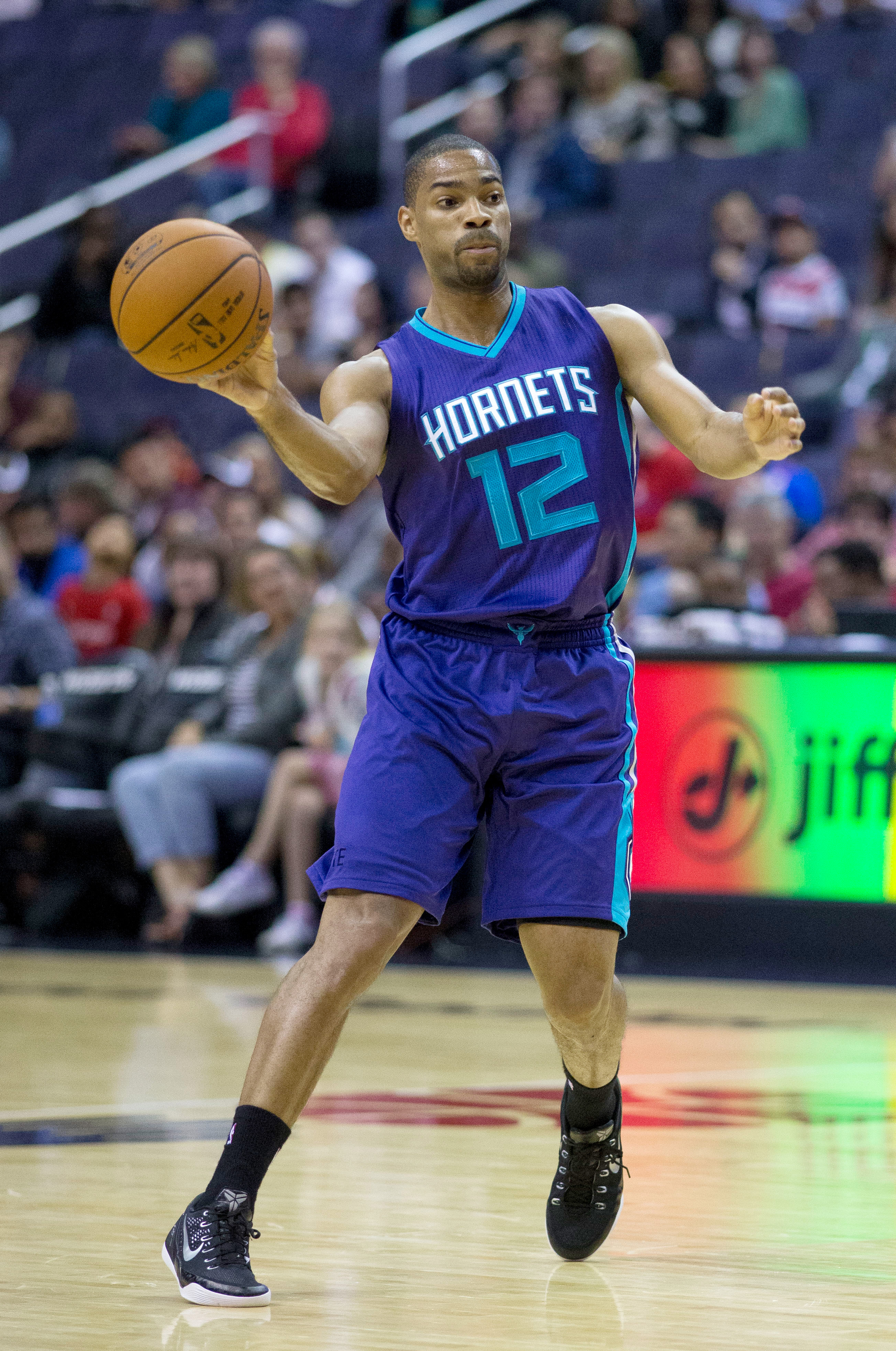 Hornets at Wizards 10/17/14